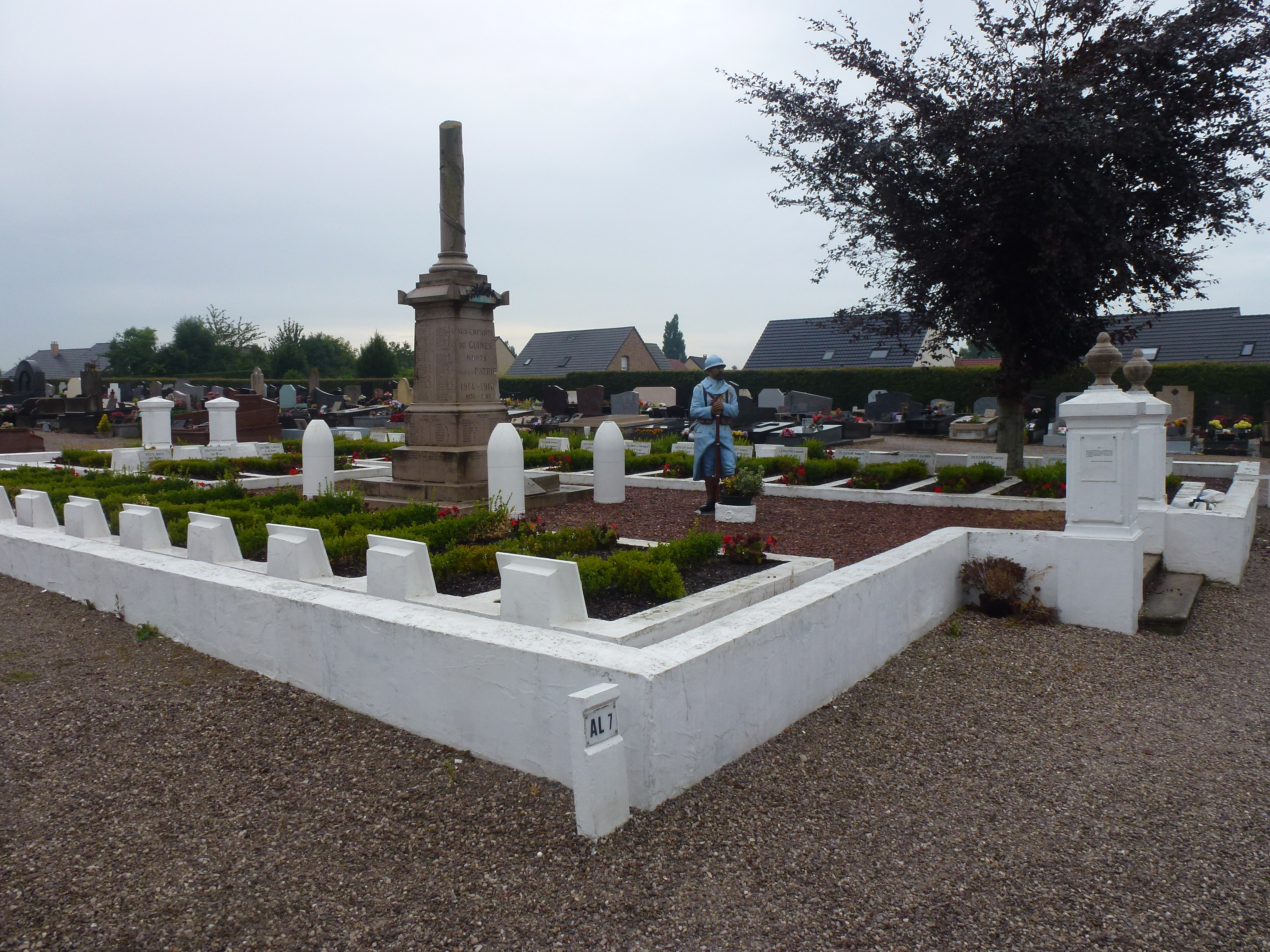 Guînes (Pas-de-Calais) cimetière, carré militaire français